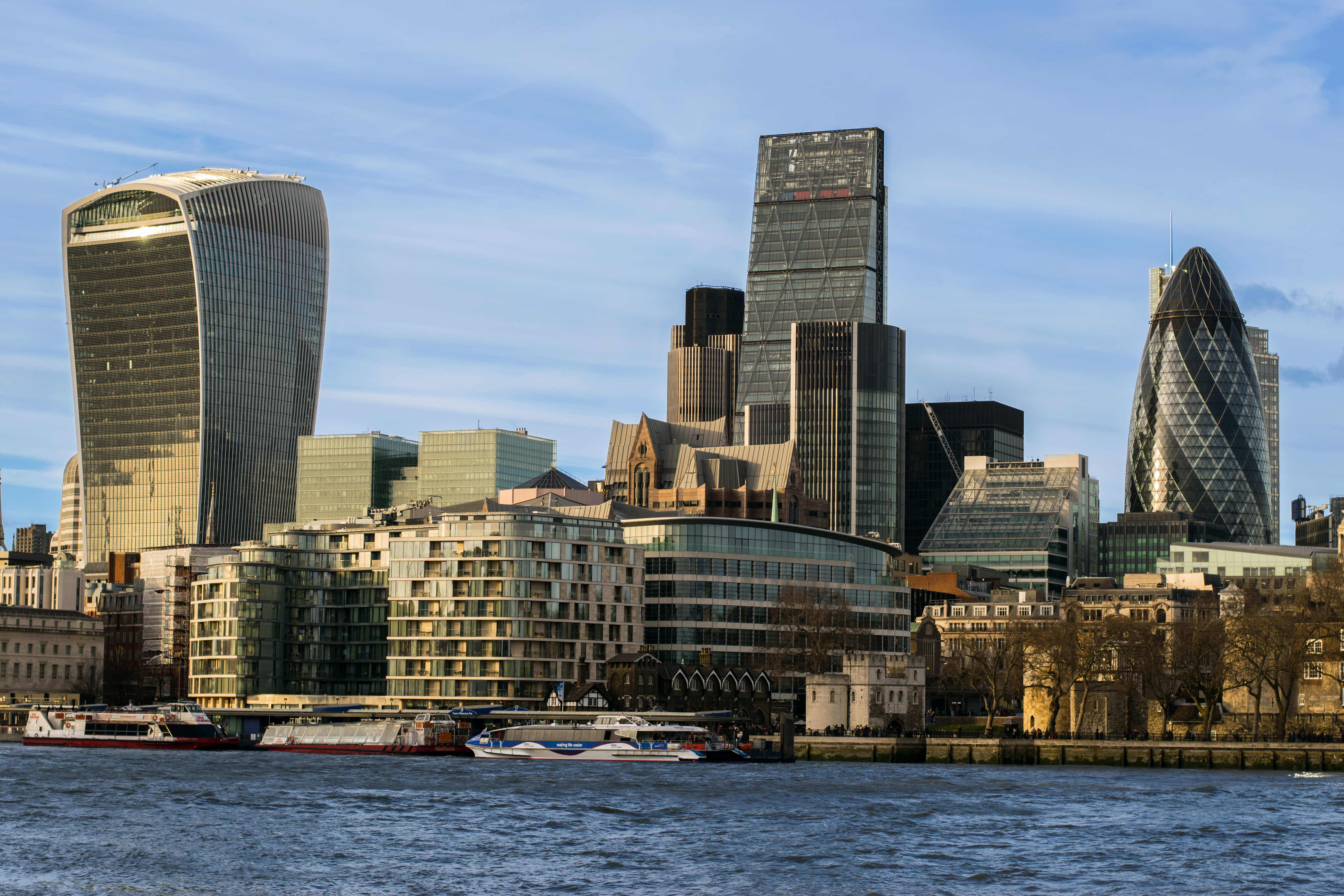 The City of London seen from the south bank of the river Thames in London, United Kingdom.